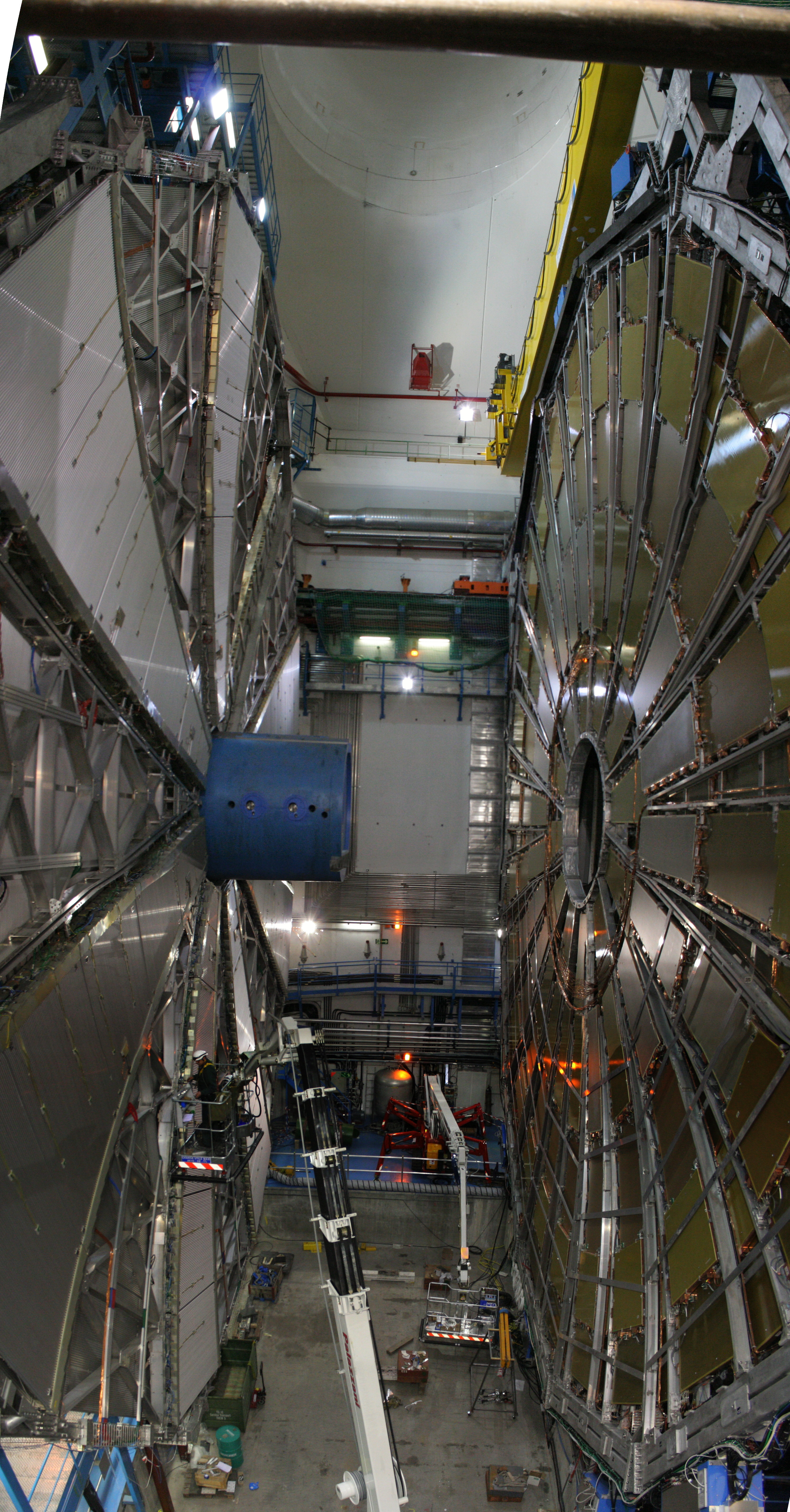 The Atlas-detector, the biggest of six detectors currently under construction at CERN. Image merged from several others.